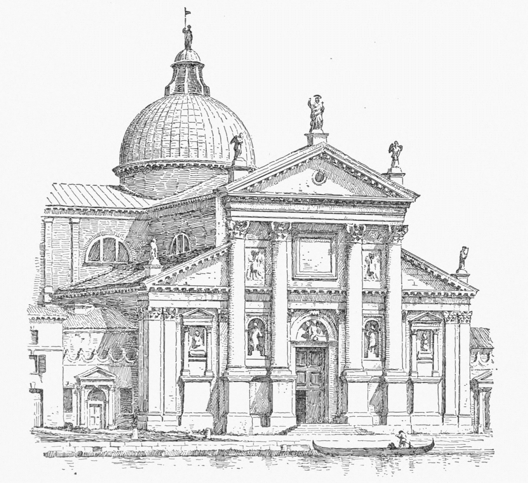 Scan from book 'Character of Renaissance Architecture'